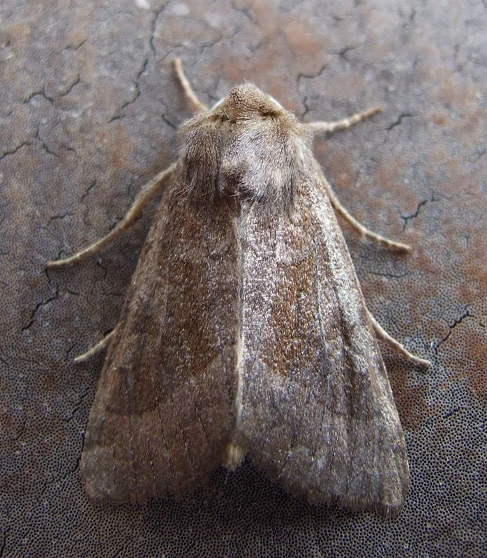 Hydraecia petasitis. Location: The Netherlands - Dordtse Biesbosch - De Elzen-Zuid